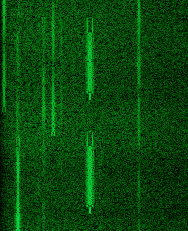 Spectrogram of two BPSK63 transmissions in the middle, surrounded by several BPSK31. Recorded on 14070 kHz.